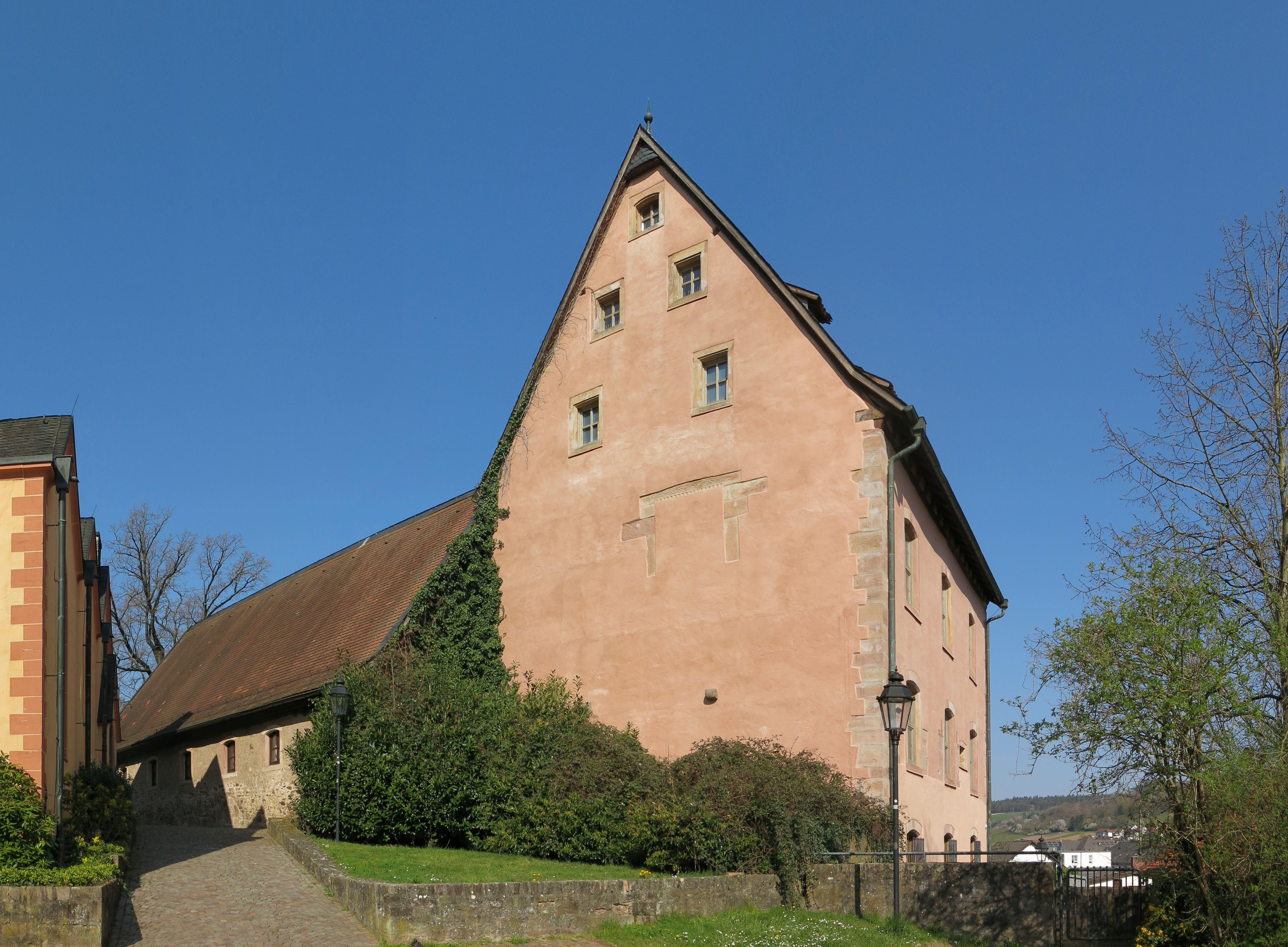 House of the Guest an Muesum in Bad Orb, formerly castle complex